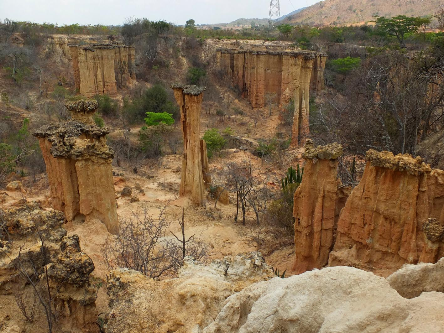 Sand stone pillars at Isimila gorge near Iringa / Central Tanzania